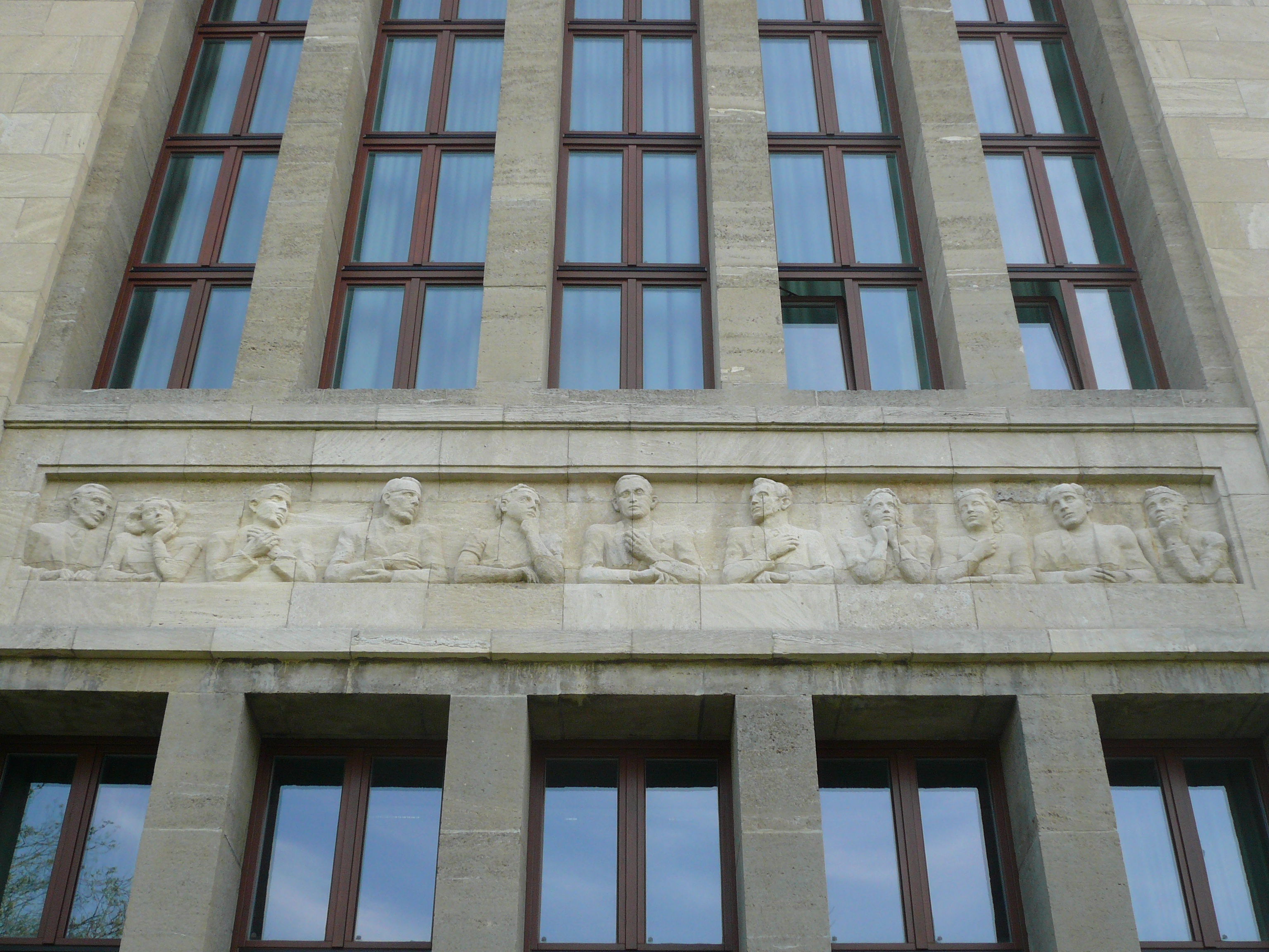 An art frieze at the teaching building 1 at the University of Erfurt, Germany